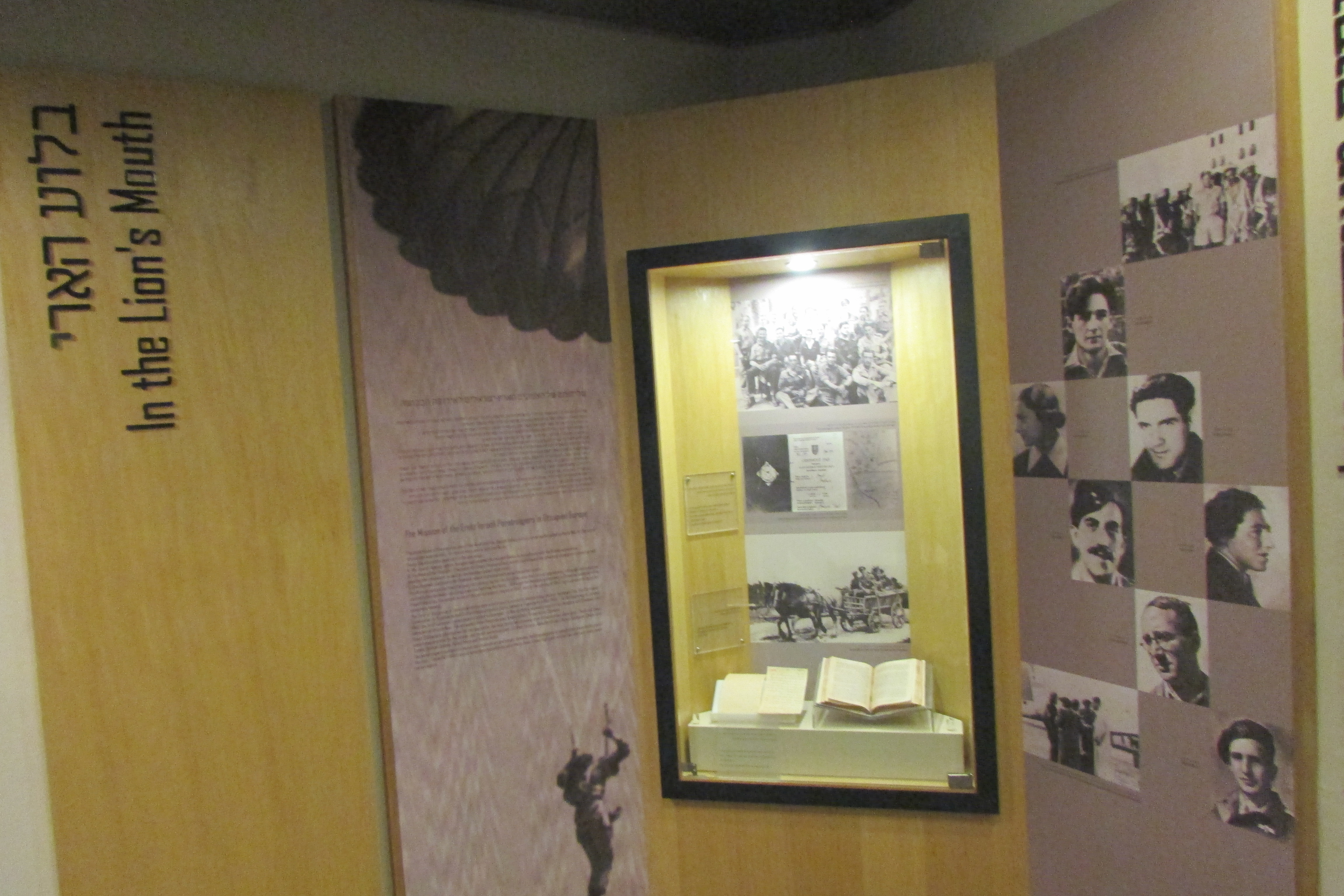 The parachuters in WWII related displays in Beyt ha-Gdudim Museum